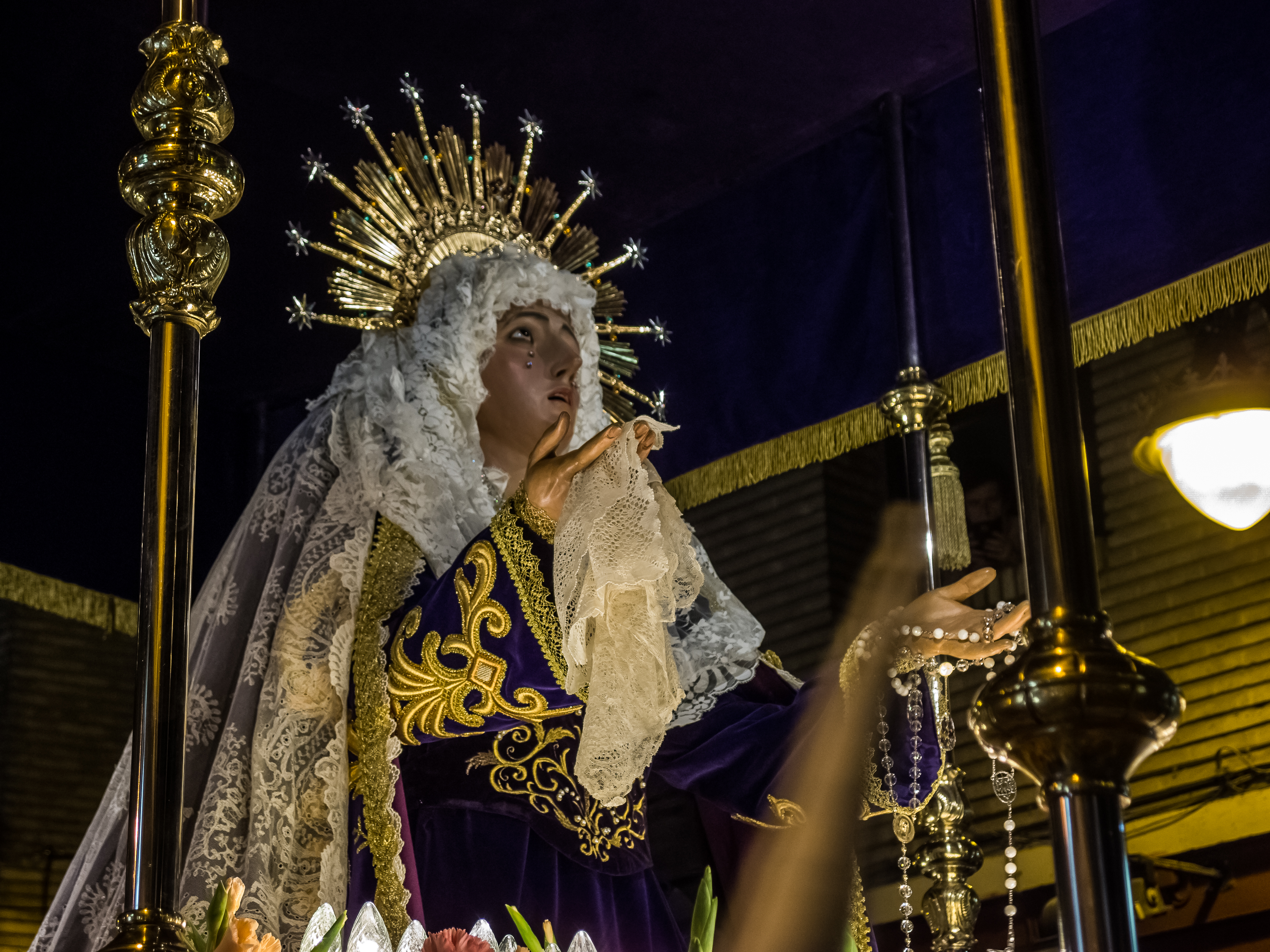 La cofradía del Descendimiento procesionó con su bonitos pasos en la noche del Jueves Santo. This is a photography of a Folklore festival in Spain (Wikidata id Q9075892).